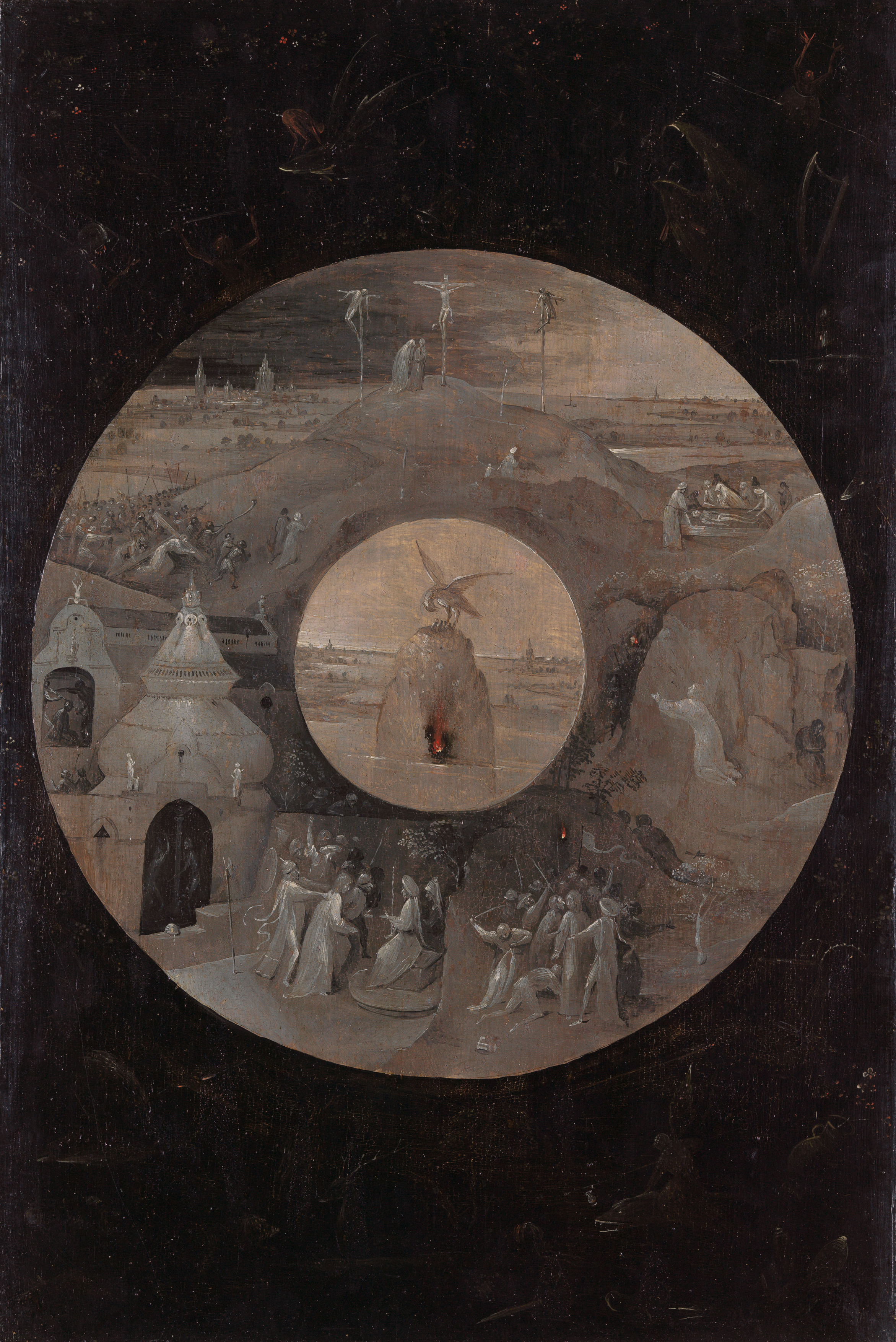 Reverse of a two-sided painting. For the front, see File:Johannes op Patmos Jeroen Bosch.jpg.